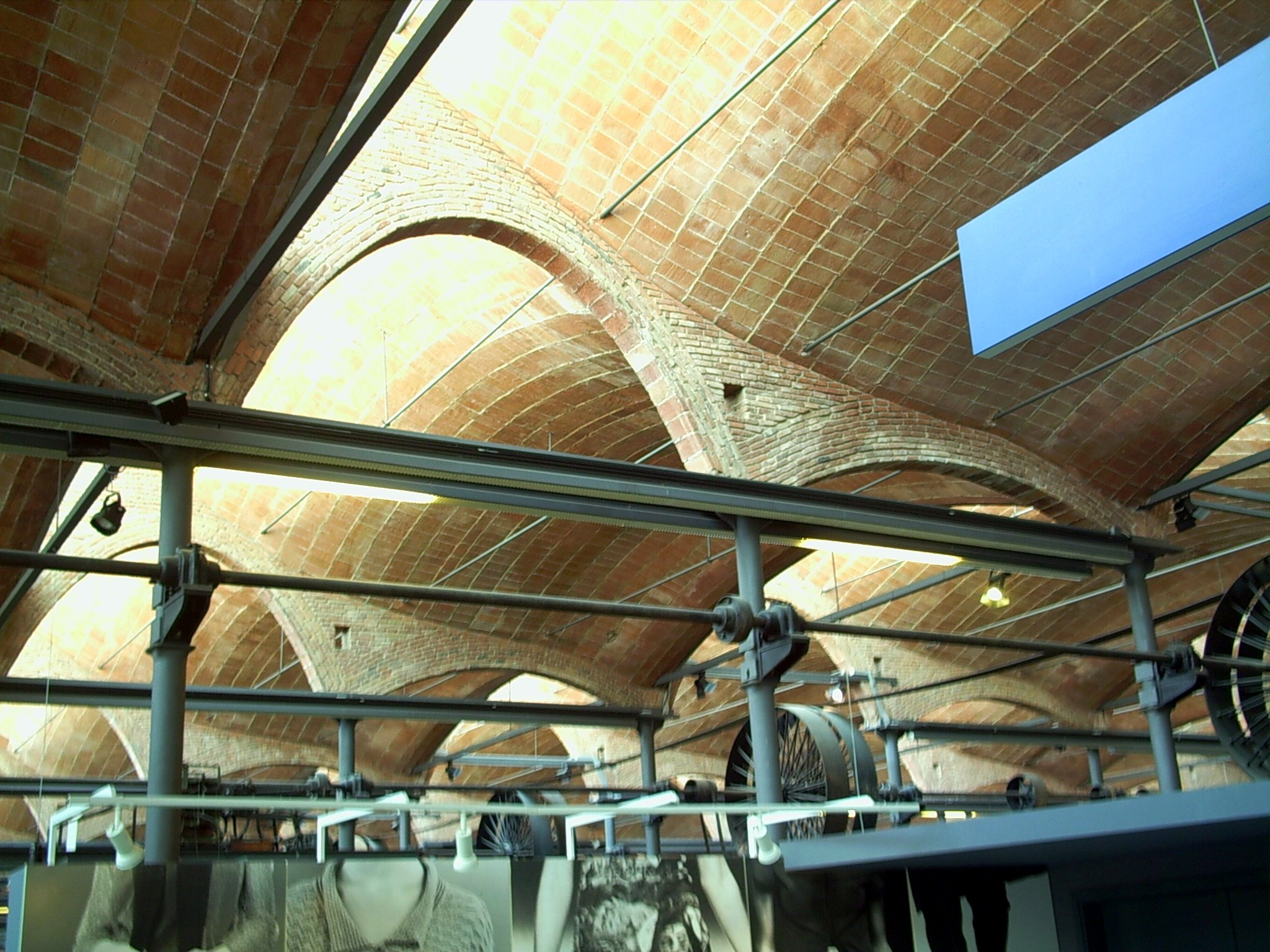 Inside of the catalan vault from the production plant of the textile factory, at the mNATECT, Terrassa, (Catalunya).